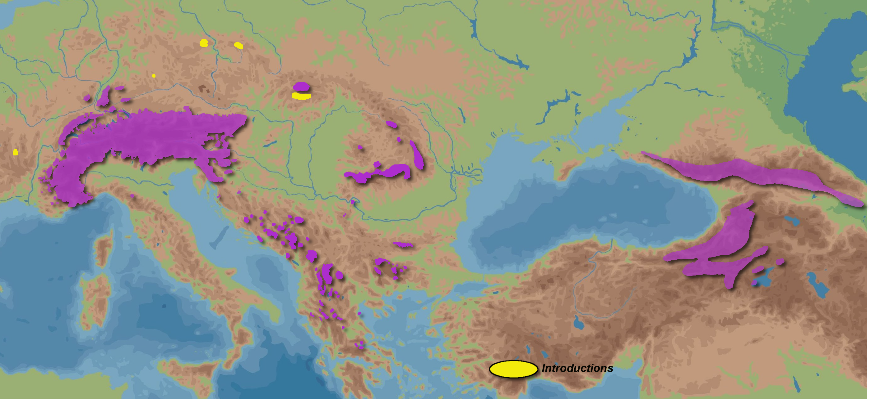 Map of Rupicapra rupicapra populations in 2008 - based on IUCN map (